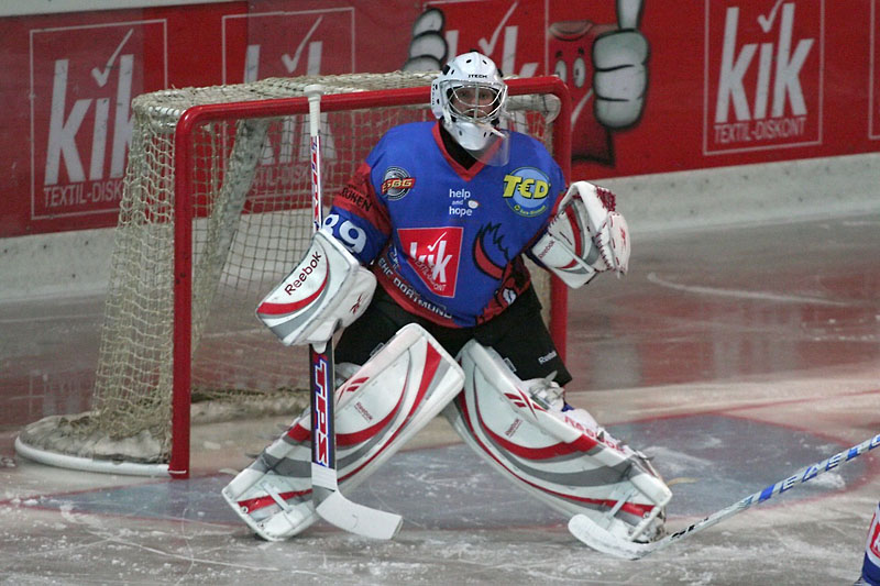 EHC Dortmund - #89 - Ch. Wendler